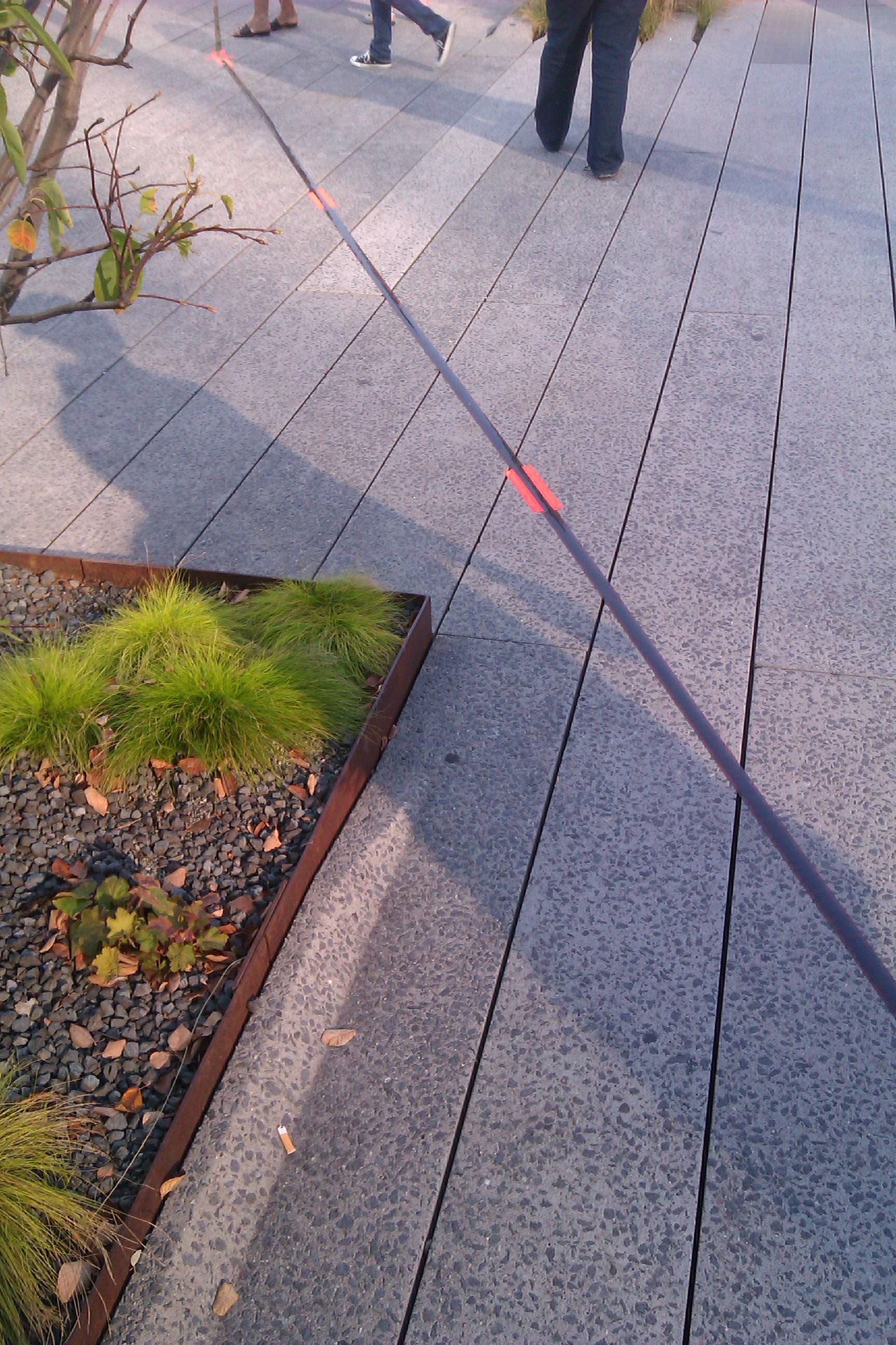 Part of One Mile Parkour Film by Jennifer West, a public performance where a mile of film strip was laid on the High Line on September 13, 2012 to be stepped on by the public and to be damaged further and shown in October. High Line description here. (Note that coordinates were approximated from Google Streetview using context from other pictures)